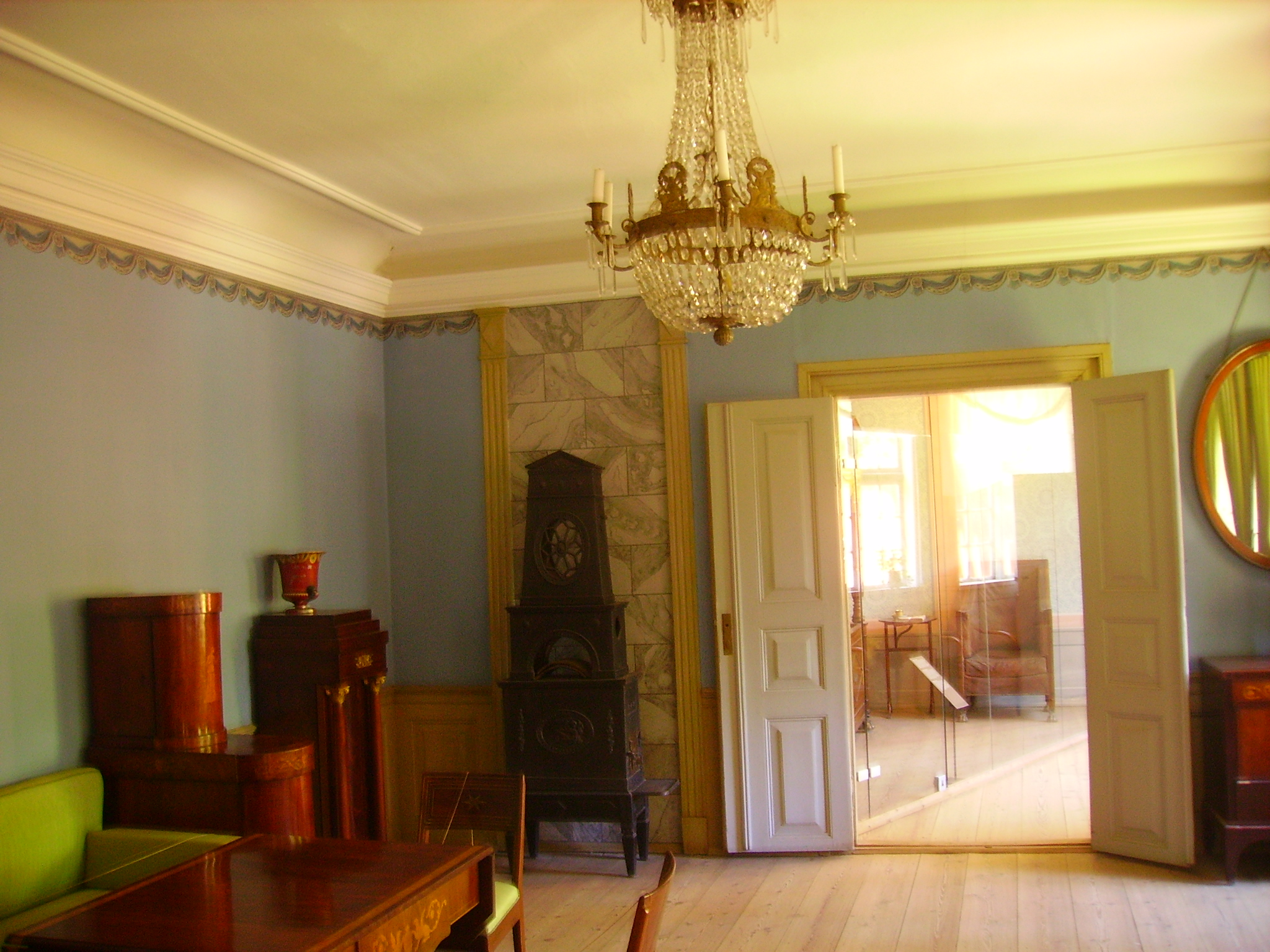 inside the Mayor's house at Den Gamle By, Aarhus